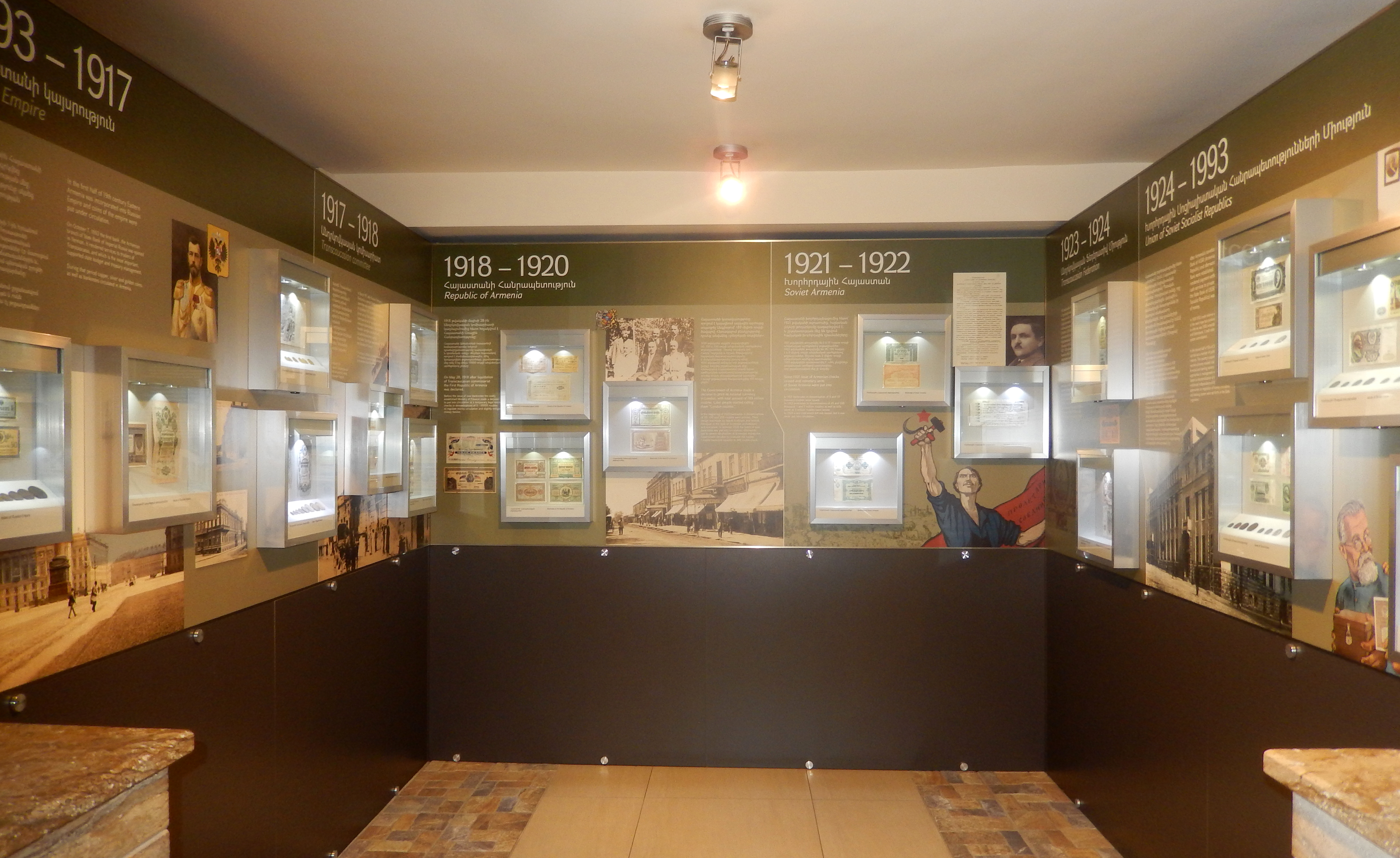 Visitors Center, CB, Yerevan